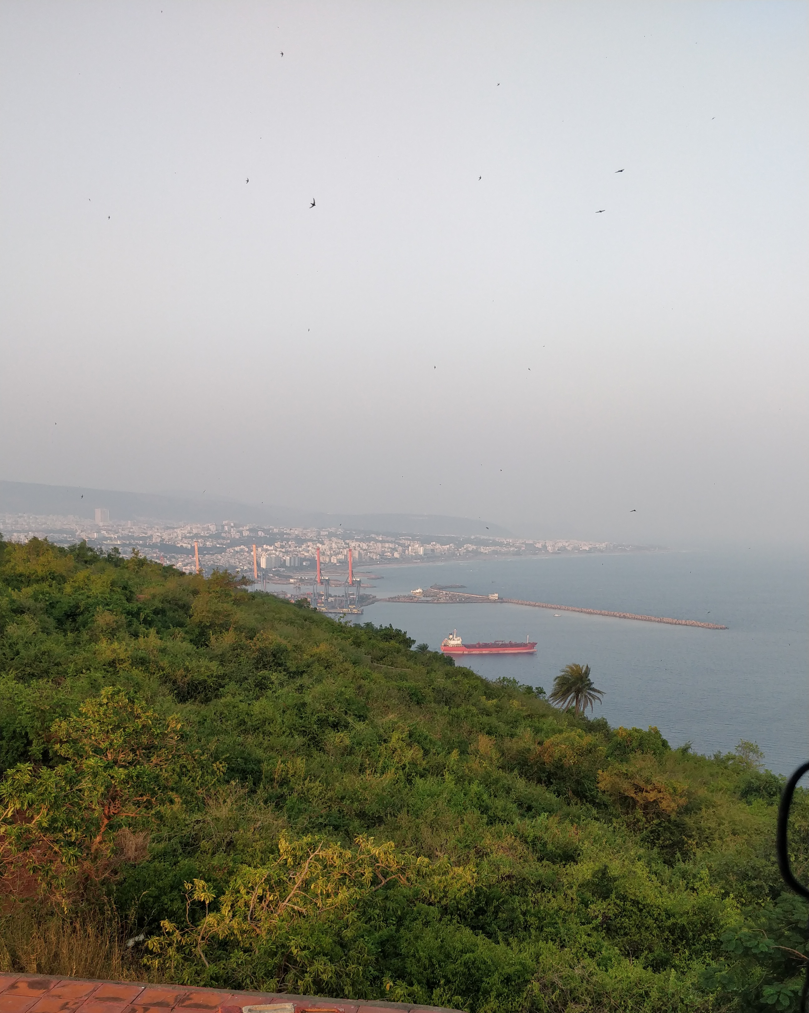 Vizag seaport from the lighthouse on Dolphin nose hill